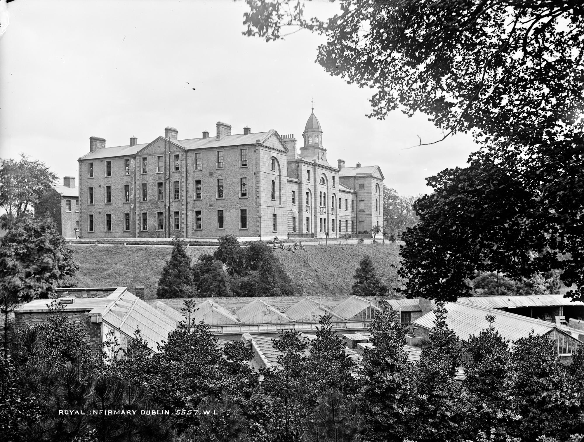 For Friday we find ourselves visiting an old friend. I worked with a man once who constantly mixed up his metaphors and he would say of this that it was a case of "veja du"! The Royal Infirmary on Infirmary Road with a wonderful collection of glassed greenhouses in the foreground, and several infirm infirmarians on the grass bank resting in the sunshine. These Royal plates really do provide the most amazing images! Photographer: Robert French Collection: Lawrence Photograph Collection Date: Catalogue range c.1865-1914 NLI Ref: L_ROY_05557 You can also view this image, and many thousands of others, on the NLI’s catalogue at